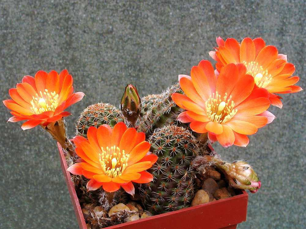 Rebutia pygmaea (Fries) Br. & R. f. SE62 - cultivated plant (seed marked SE62) from own collection.